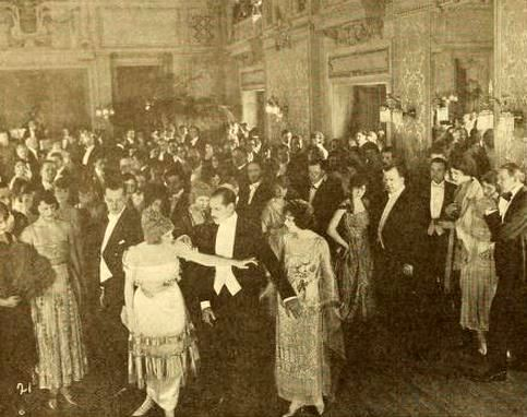 Still from the American film A Midnight Romance (1919) with Juanita Hansen, Jack Holt, and Anita Stewart, from an ad on page 1294 of the March 8, 1919 Moving Picture World. This scene was shot in the Hotel Alexandria in Los Angeles. The caption for the still states: "She's not a thief," Roger interrupted. "You've made a terrible mistake." "Well, what's her name?" Mazie shrieked. "I - I - I don't know," Roger stammered.